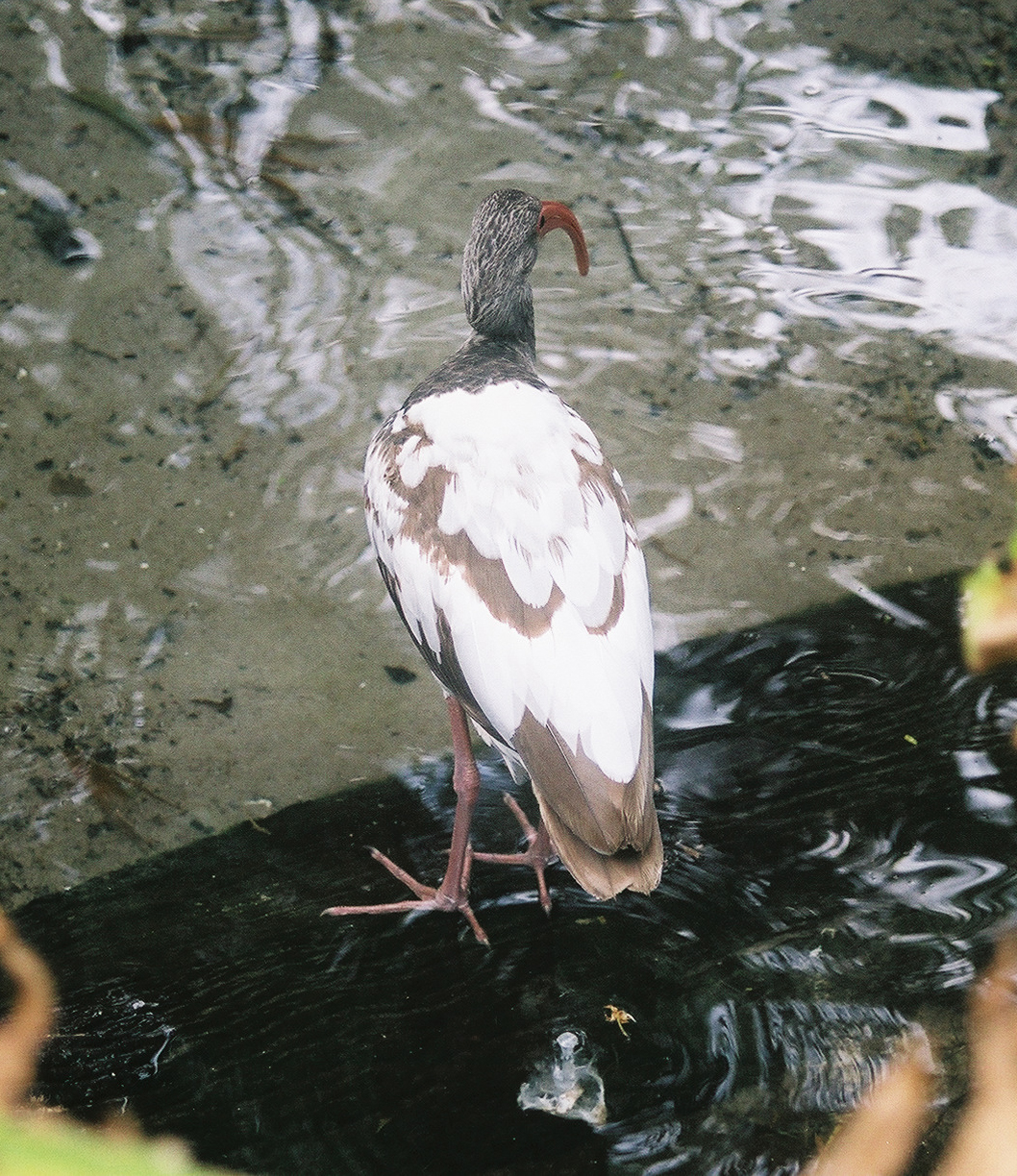 Coloration of a juvenile American White Ibis Author: Edward Russell